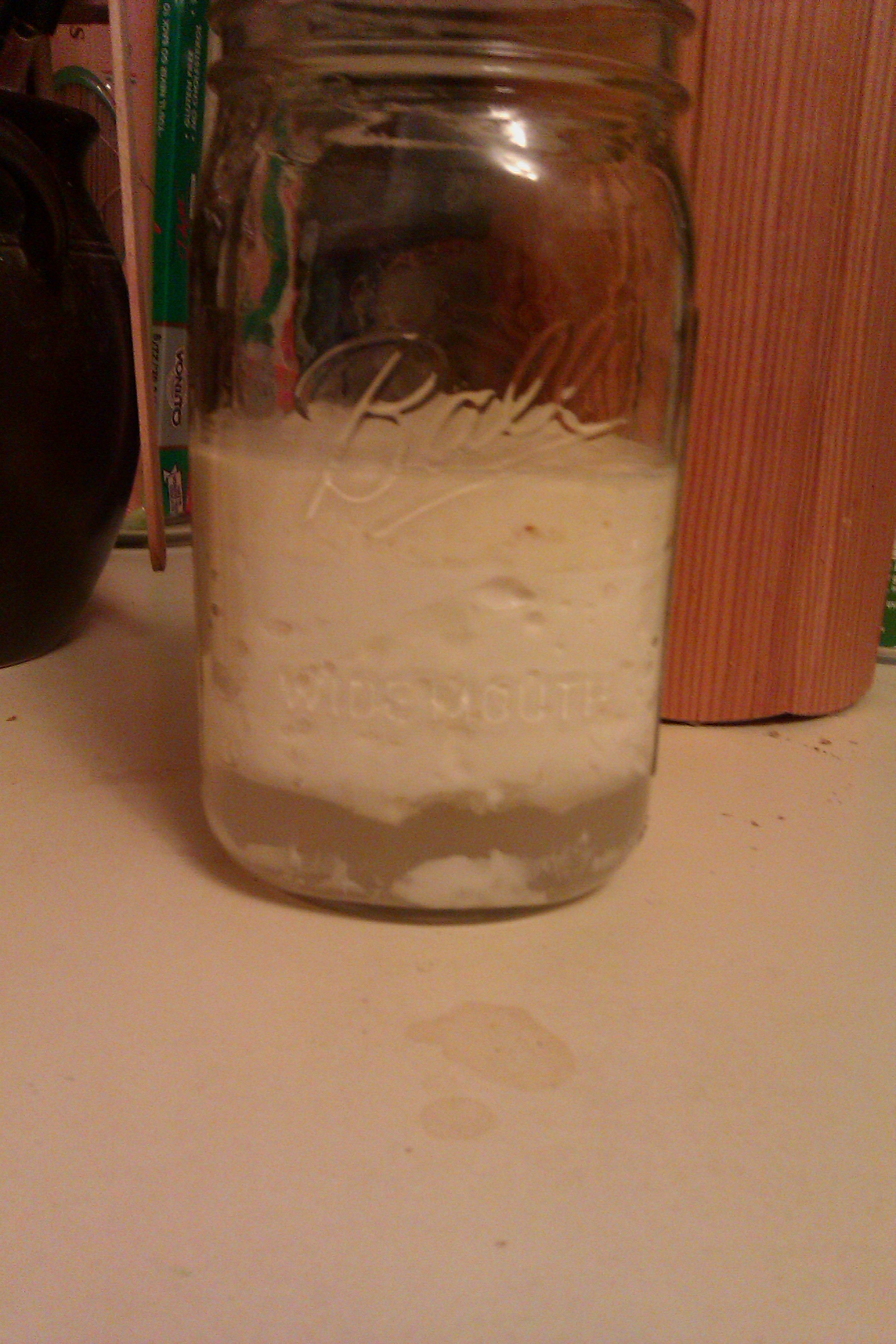 Jar of separating curds and whey.